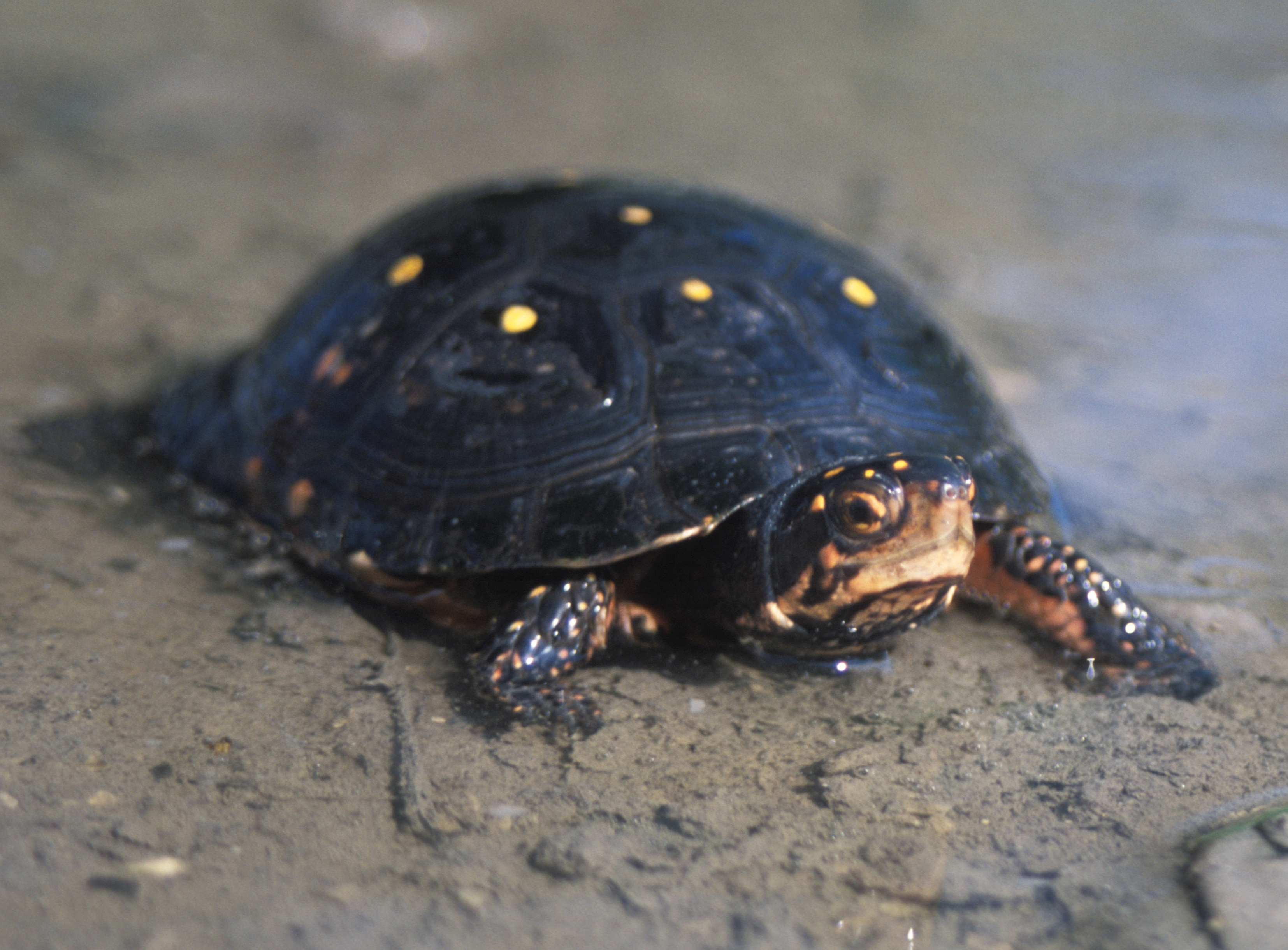 Spotted Turtle (Clemmys guttata). North Carolina, USA.